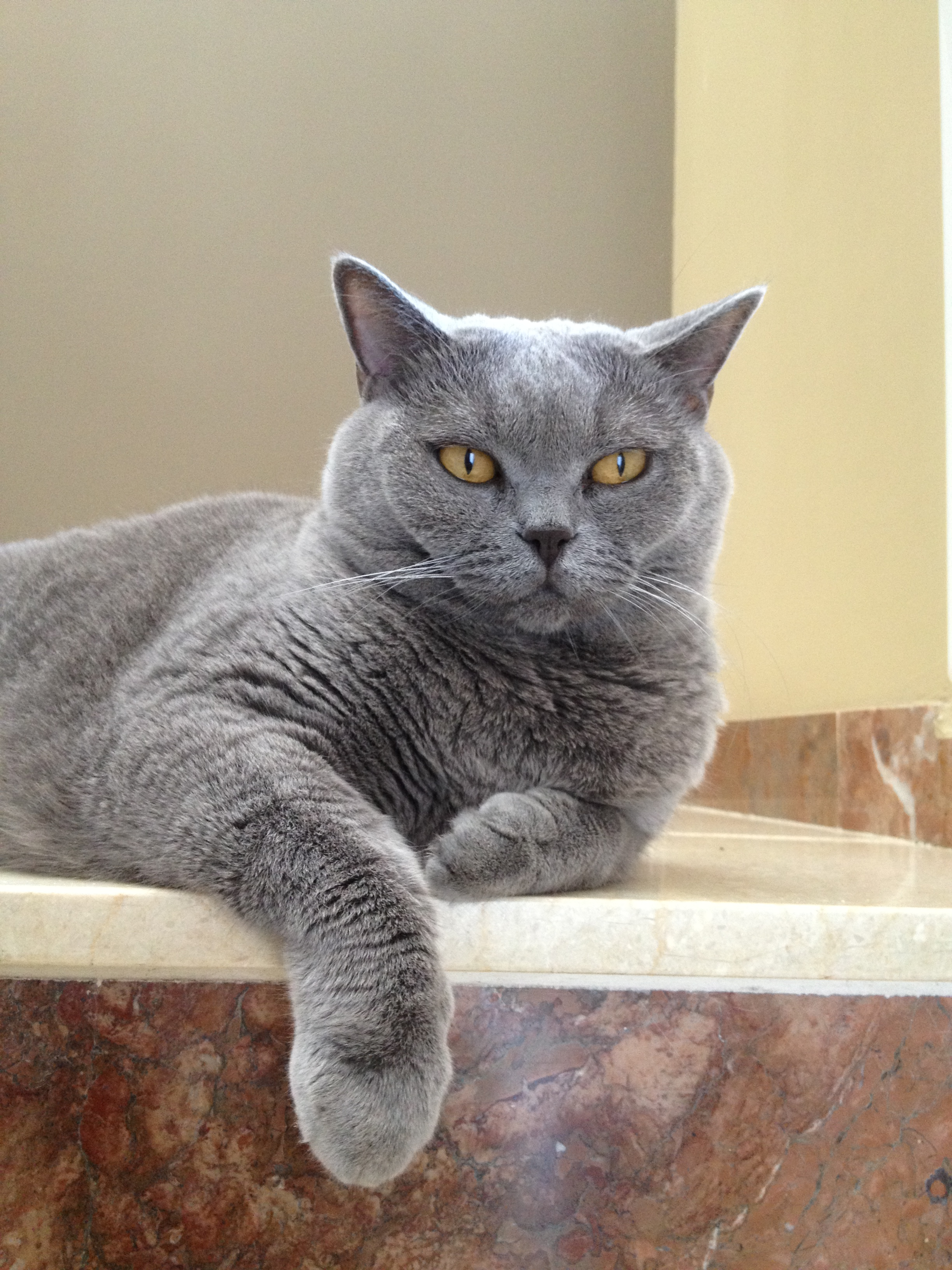 British Shorthair